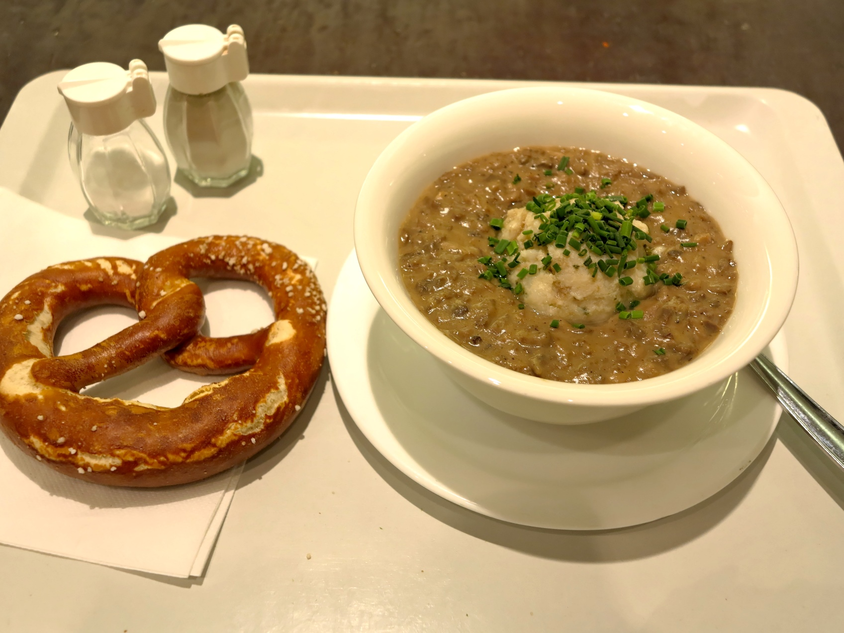 Food "Saures Lüngerl": Raguout of porcs Lunge with Bread dumpling